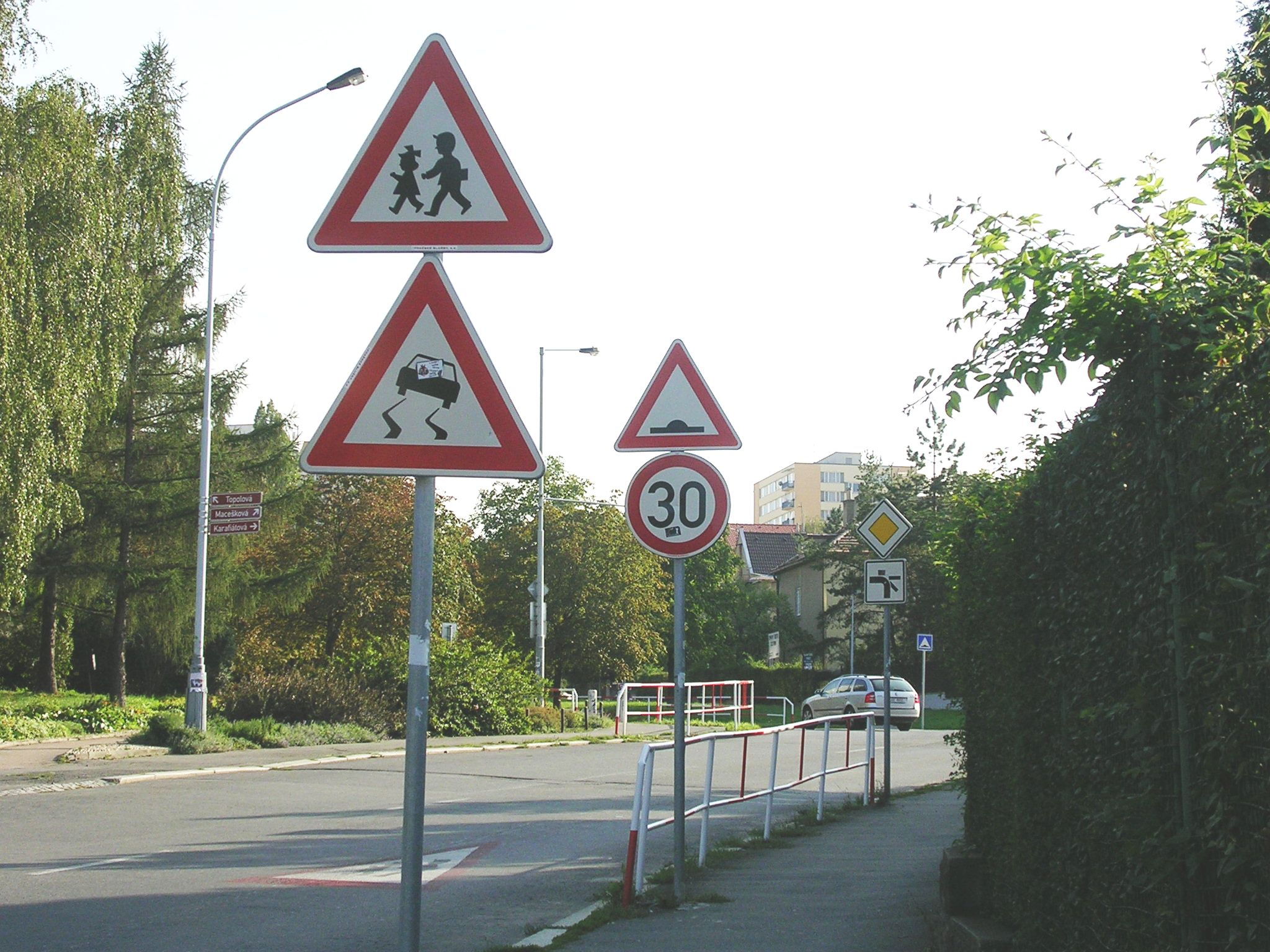 Prague, Záběhlice, Topolová street. The Czech Republic.